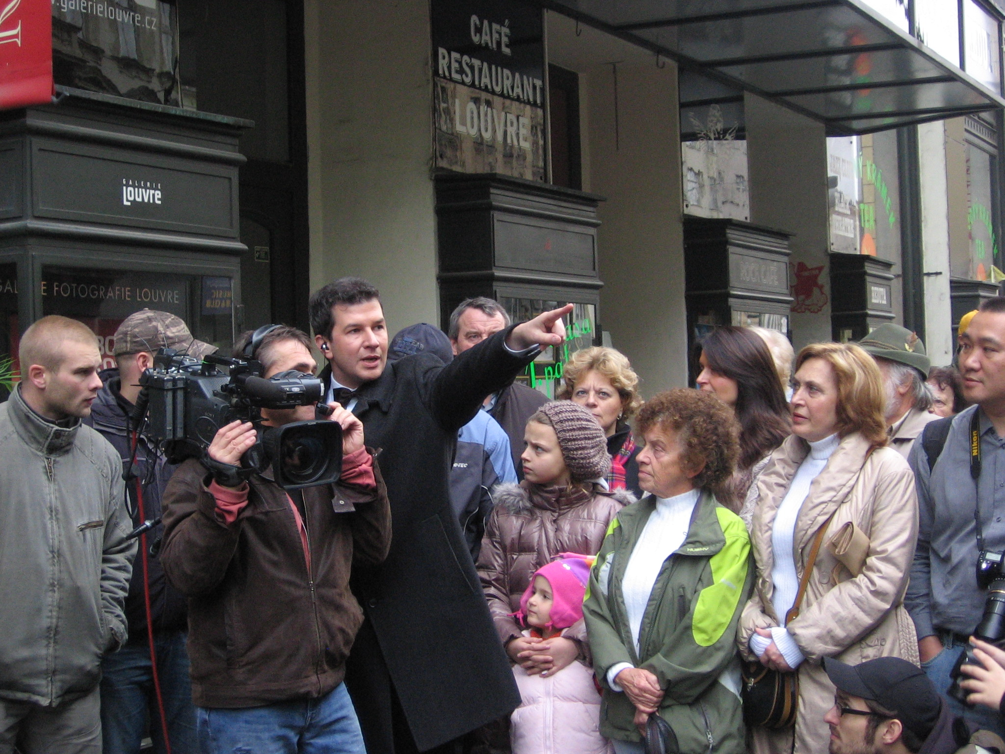 Jakub Železný, Czech journalist